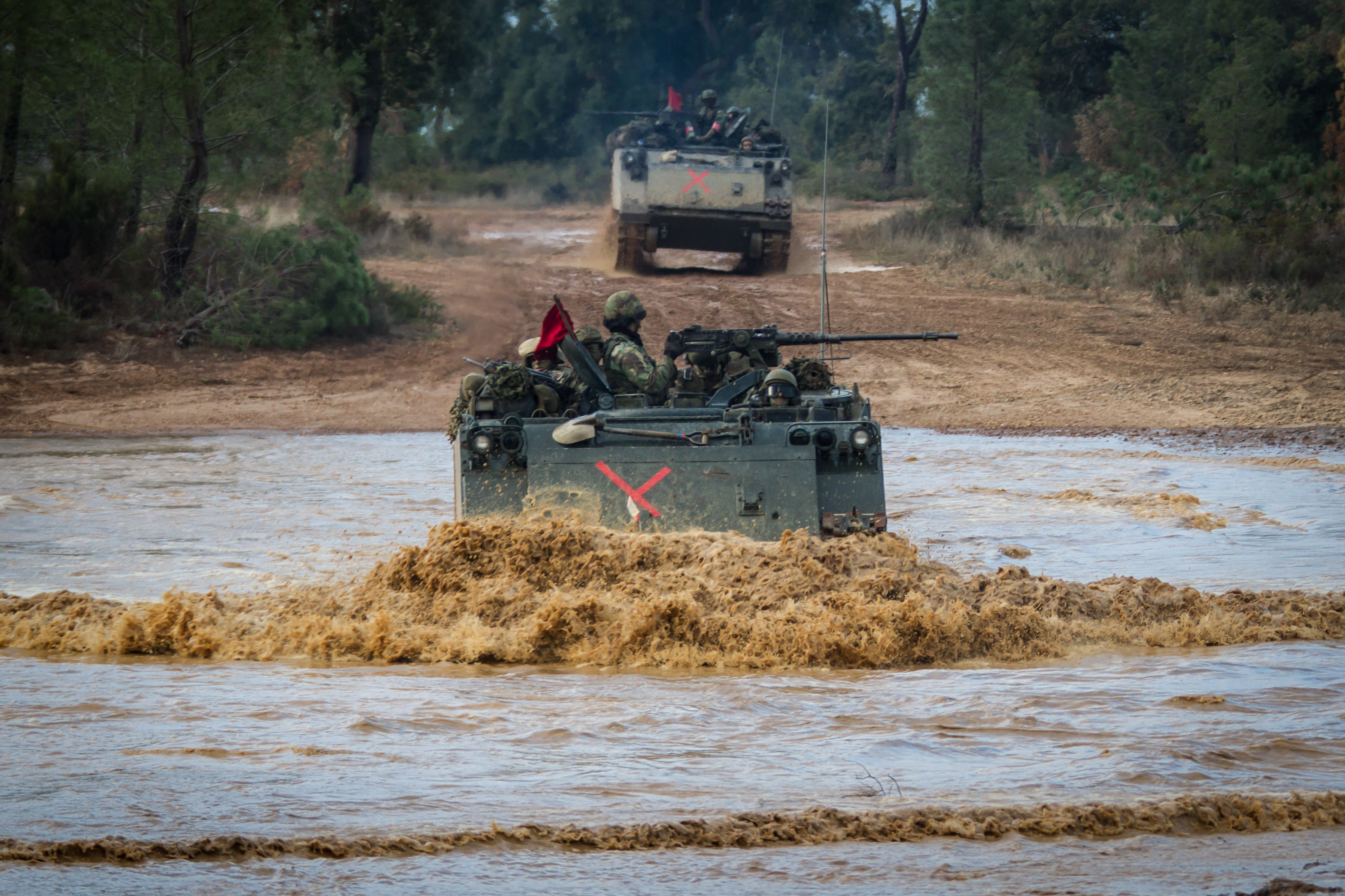 A Portuguese Mechanized Infantry M113 at Tancos, Portugal on October 29, 2015 during Trident Juncture 15. NATO photo by A. Markus